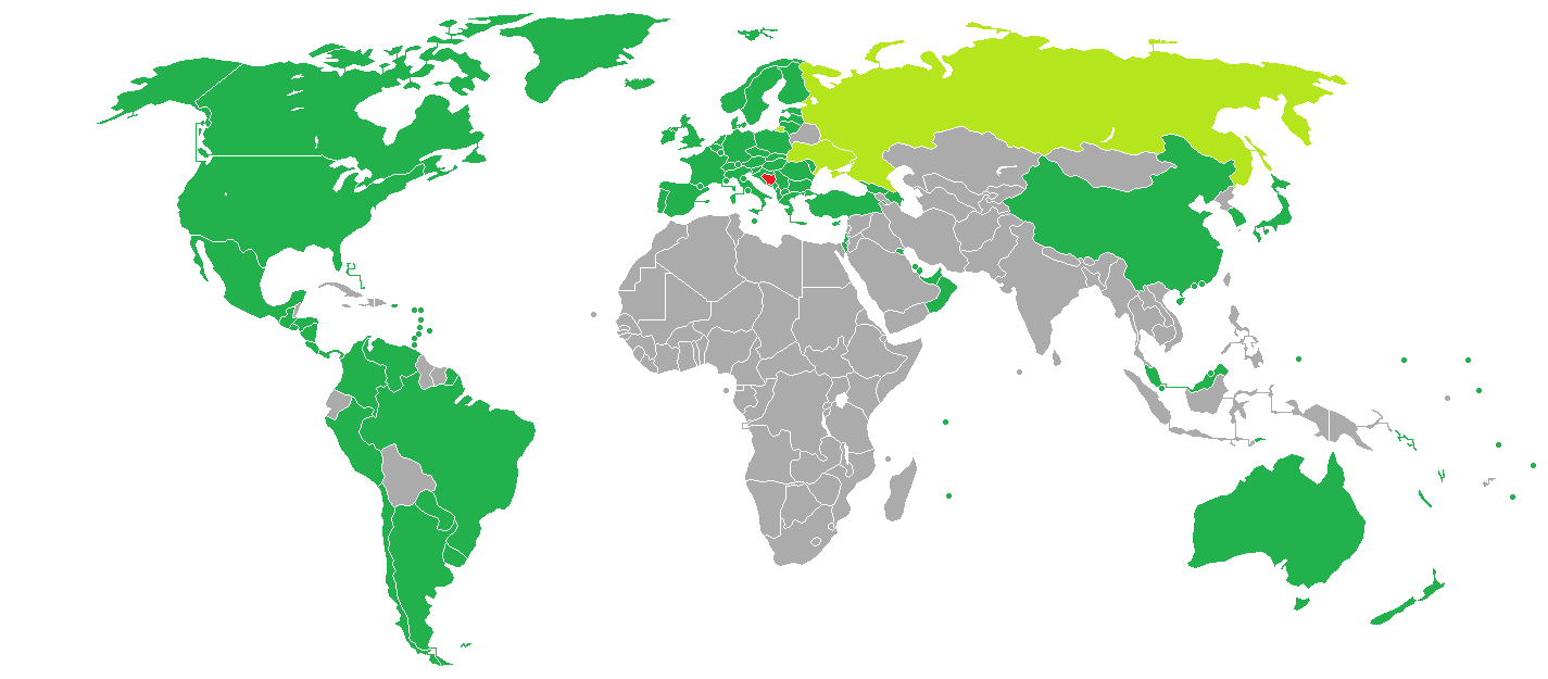 Visa policy of Bosnia and Herzegovina Bosnia and Herzegovina Visa-free access